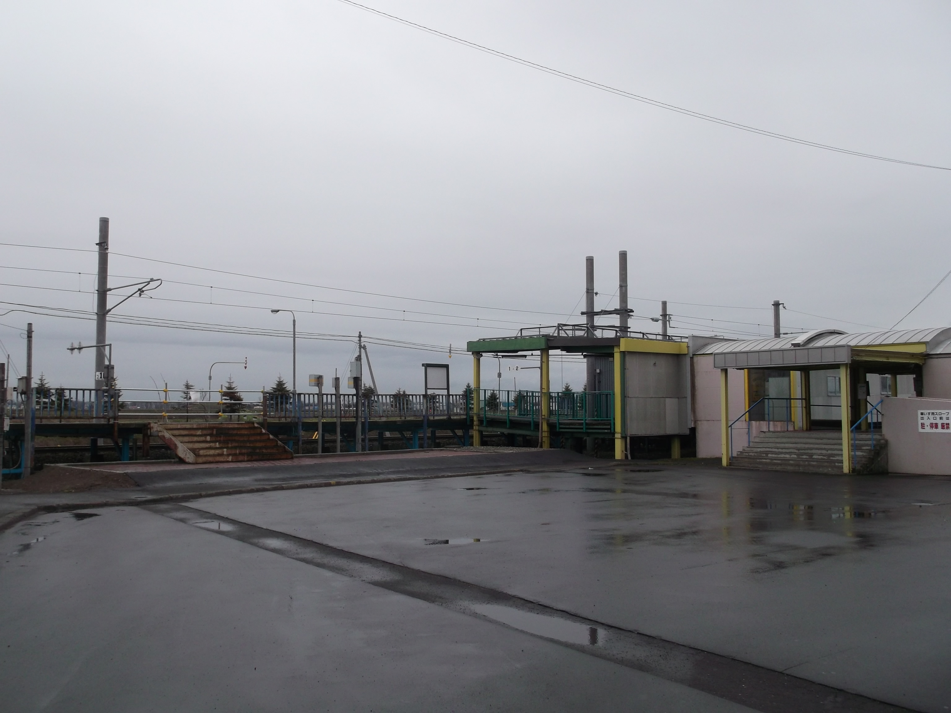 Hokkaido-Iryodaigaku Station east side